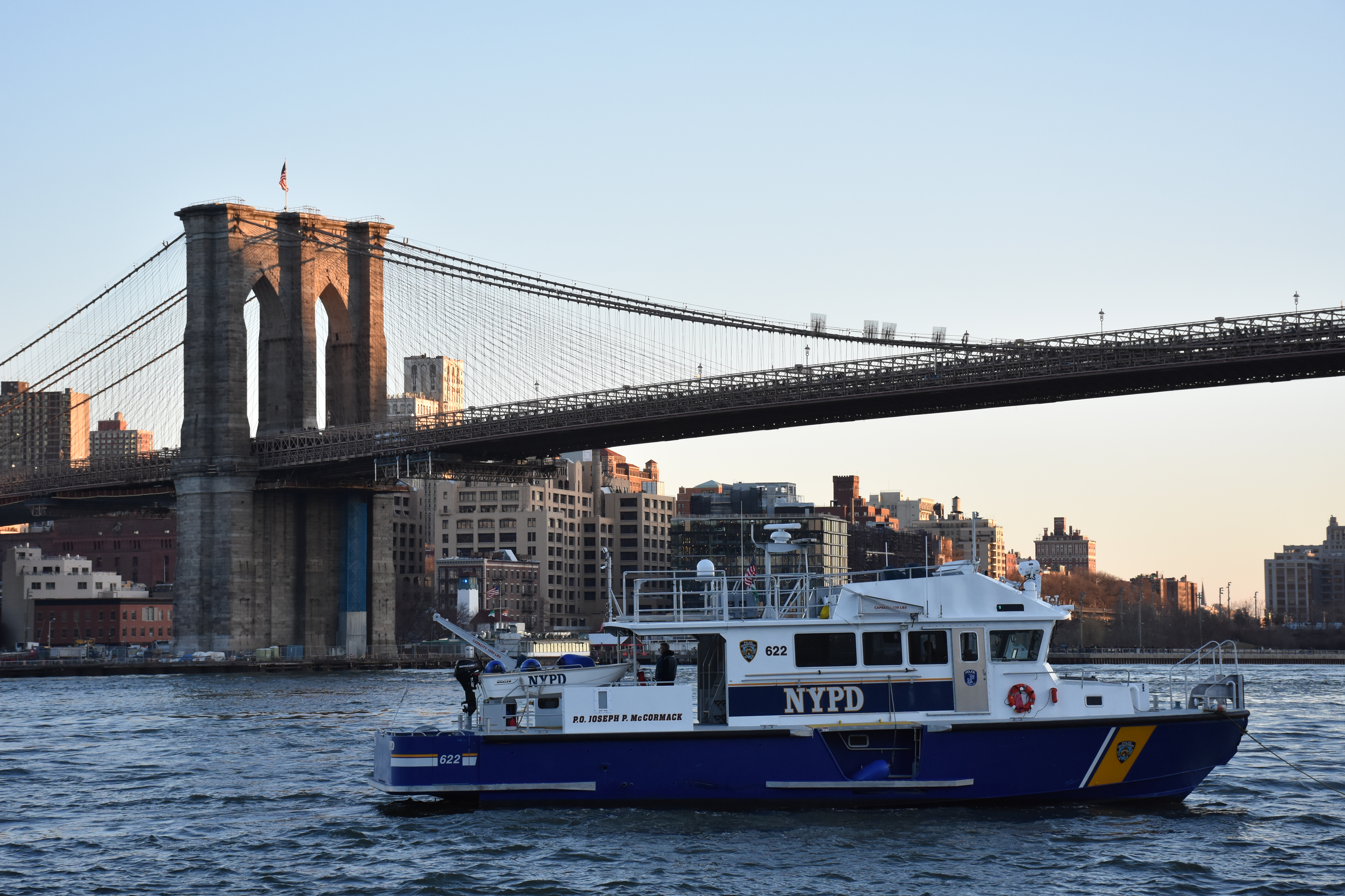 An NYPD police boat, the Brooklyn Bridge and Downtown Brooklyn at sunset, as seen from the Manhattan shore.